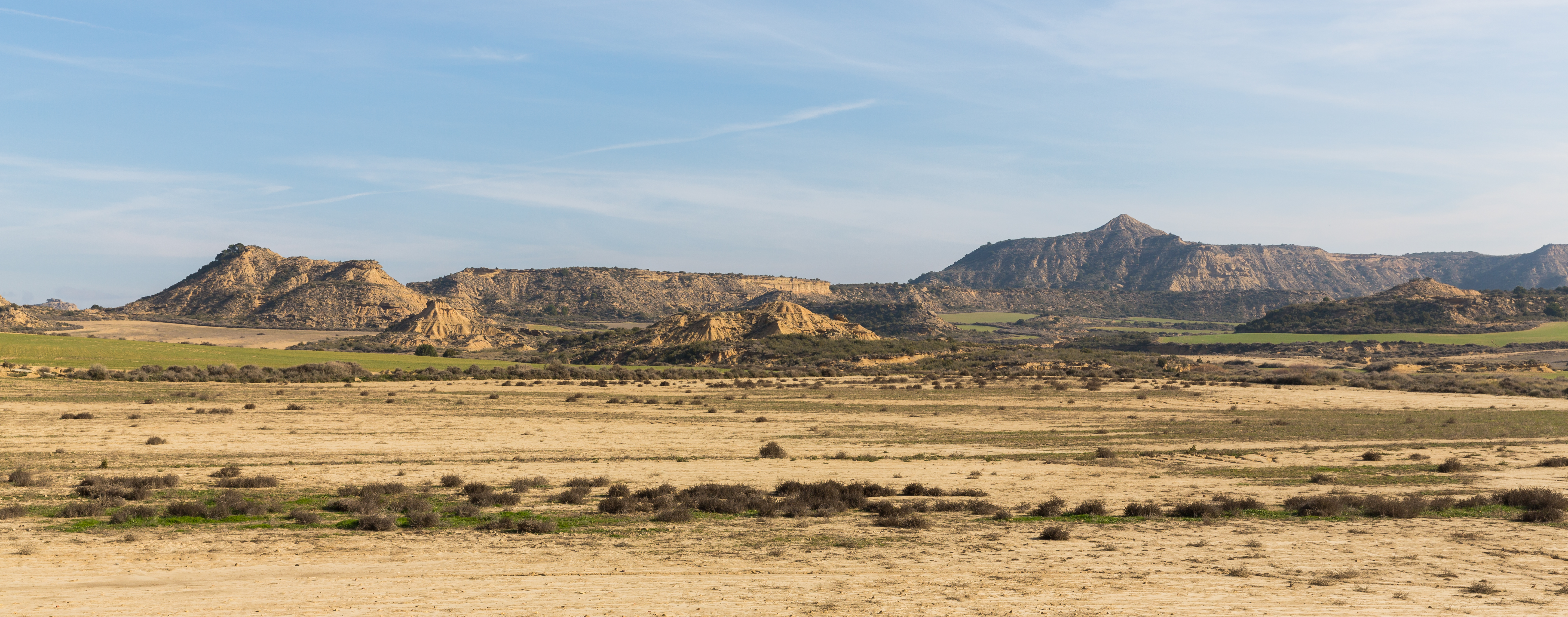 Bardenas Reales, Navarre, Spain